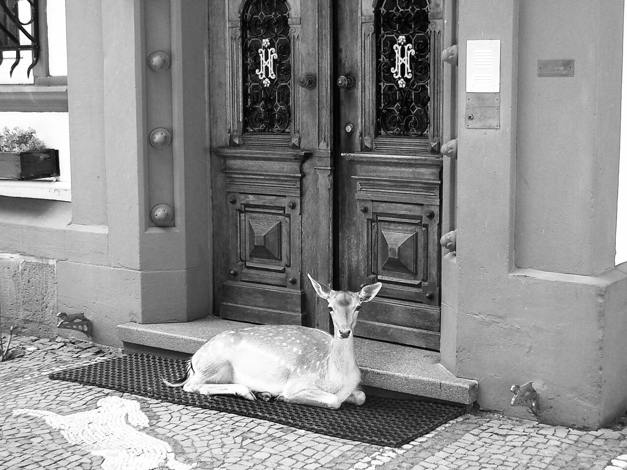 Portal in historicist style framed by an archivolte carved in sandstone. Flanked by bronze hares and fallow deer as guardians.